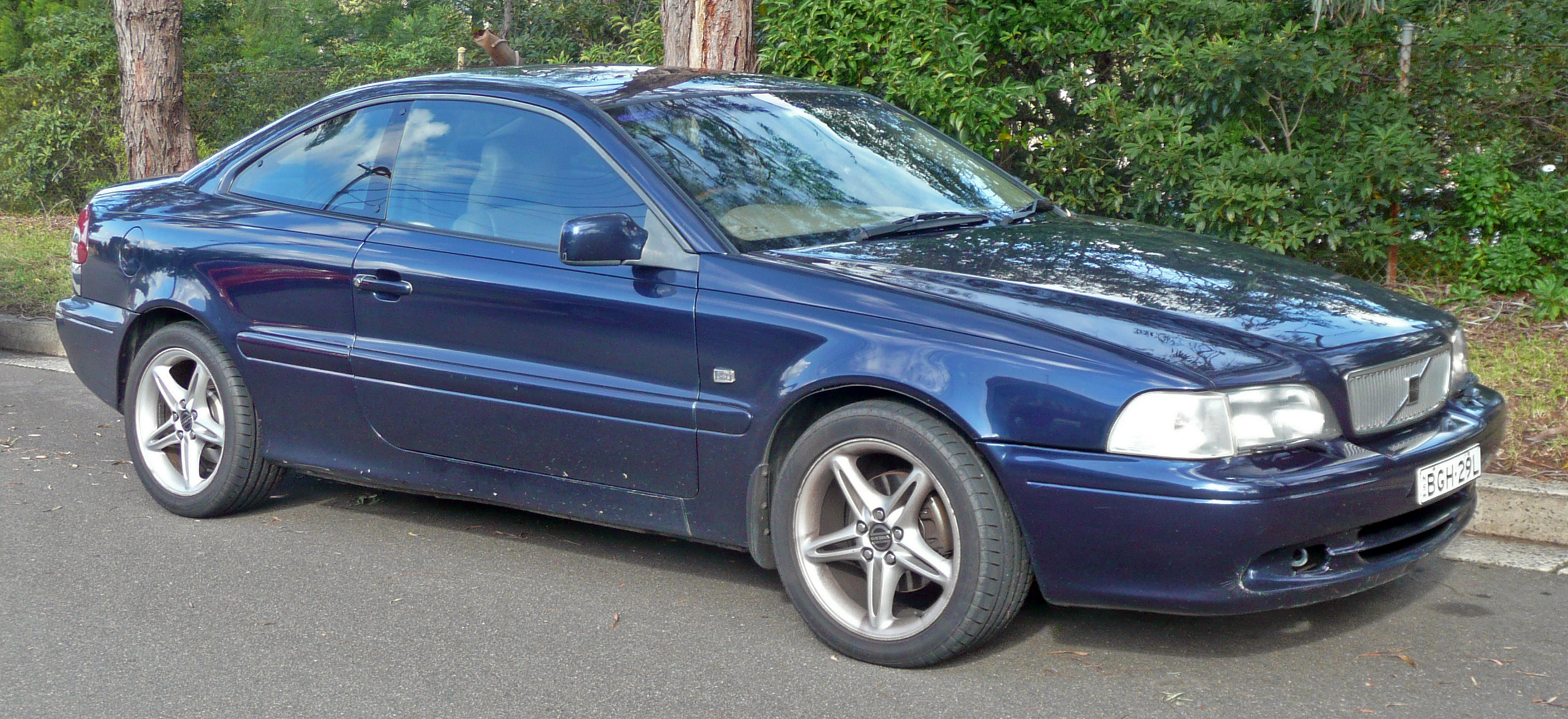 1998–2002 Volvo C70 coupe. Photographed in Kirrawee, New South Wales, Australia.